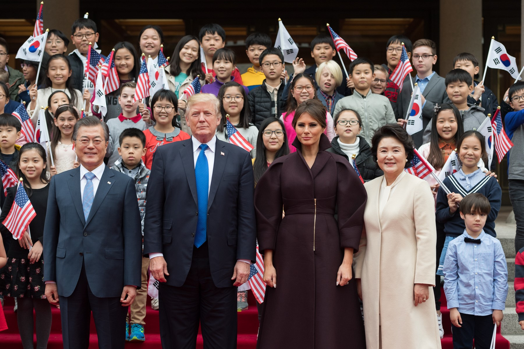 President Donald J. Trump and First Lady Melania Trump visit South Korea / November 7, 2017 (Official White House Photo by Andrea Hanks)